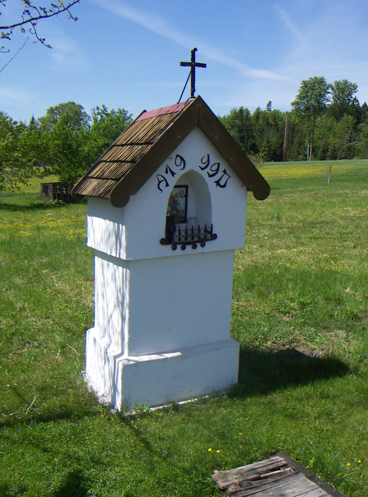 Chapel at the former village Jiříkovo Údolí, Czech Republic